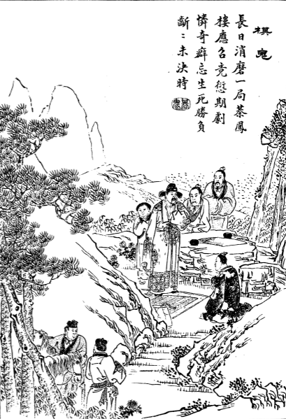 19th-century illustration of a scene from the short story "The Weiqi Devil" collected in Strange Tales from a Chinese Studio (1740).